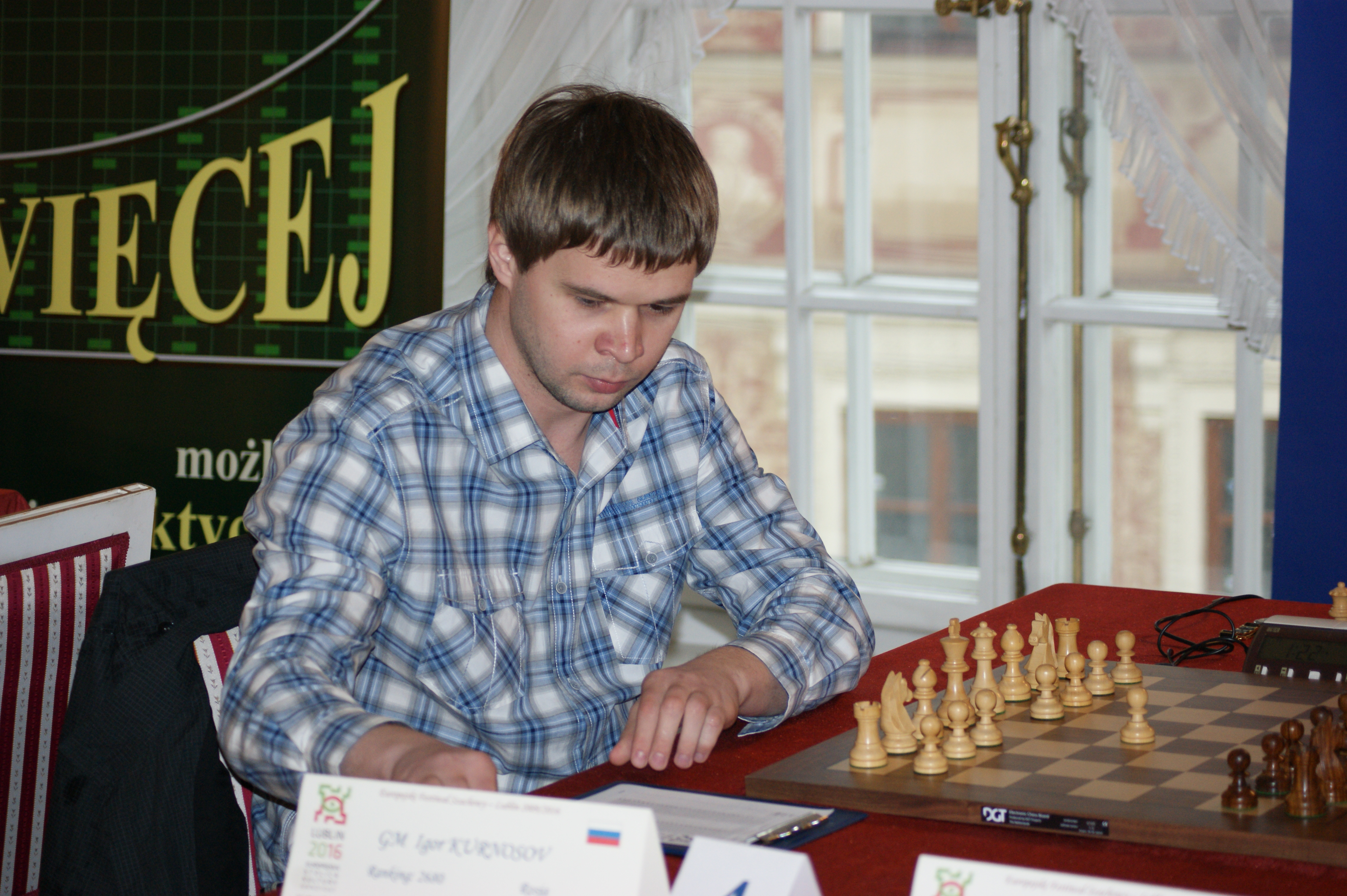 Igor Kurnosov - 6th round of 2nd International Grandmasters' Tournament - the Lublin Union Memorial 2010